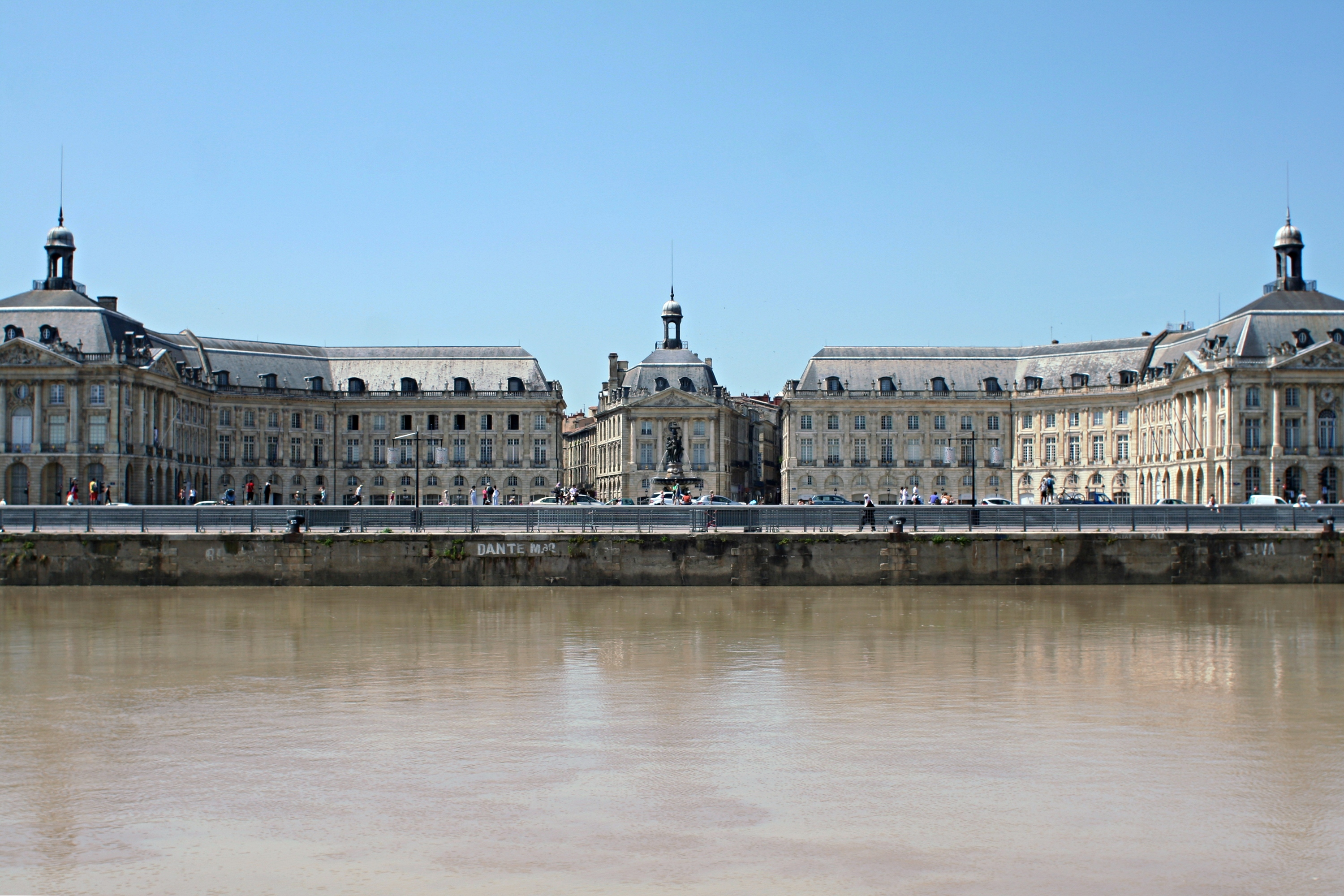 The Place de la Bourse, in Bordeaux, France, as seen from the Garonne.